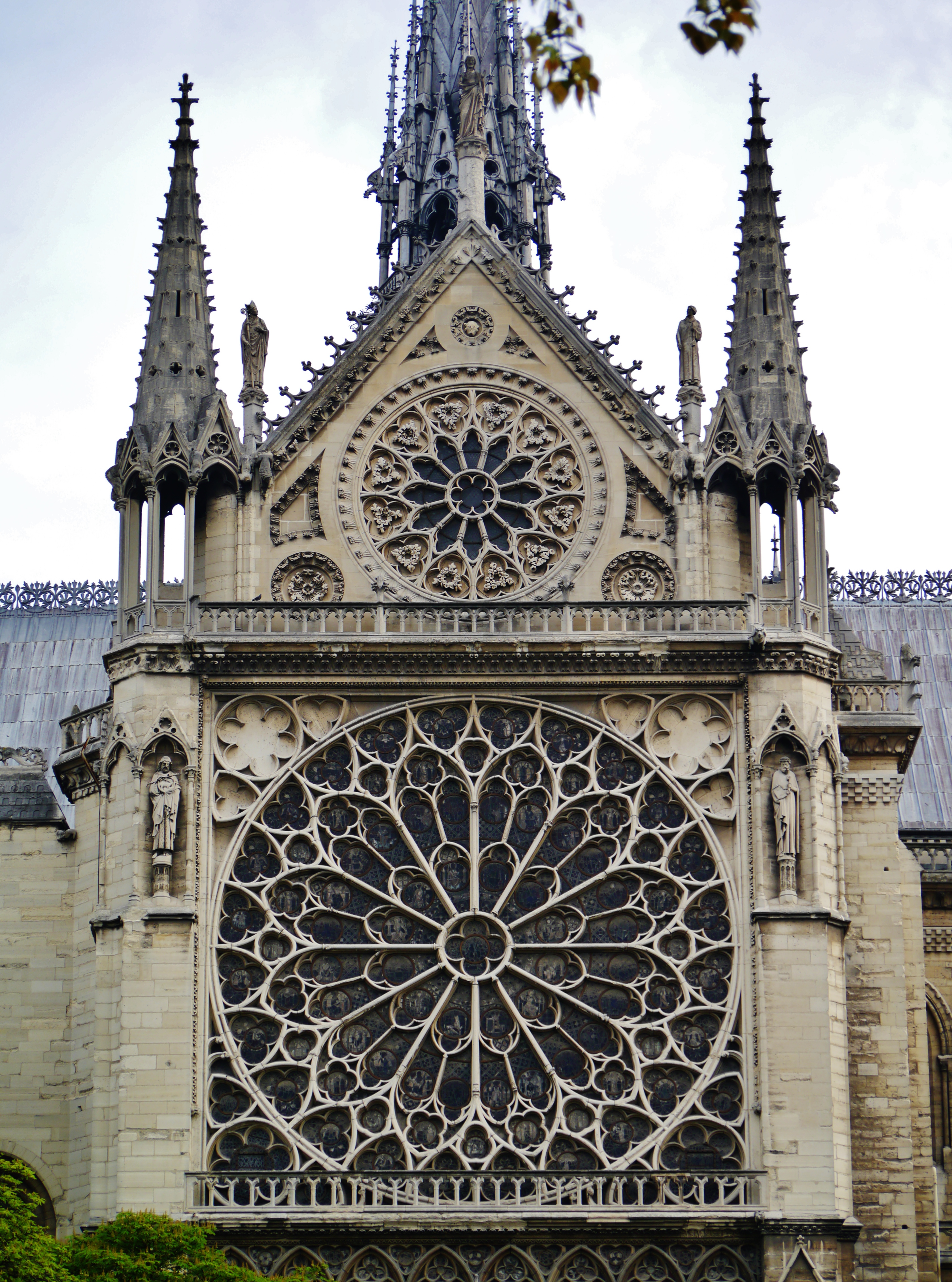 Southern Rose Window of the Cathedral of Our Lady, Paris, Region of Île-de-France, France